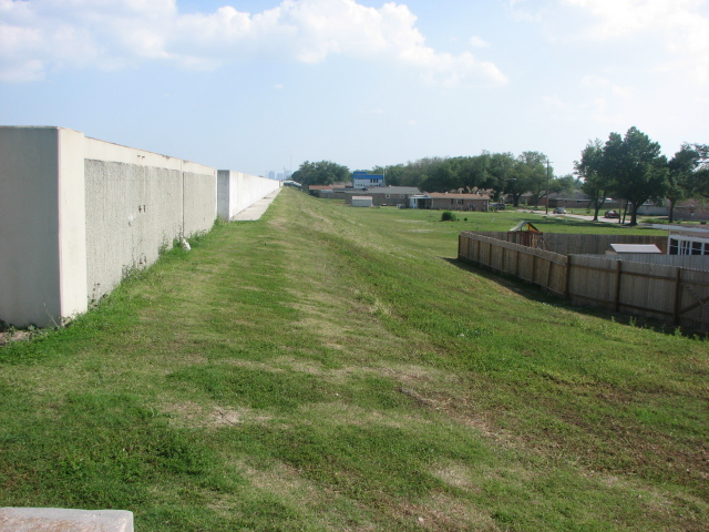 Photo courtesy of USACE.